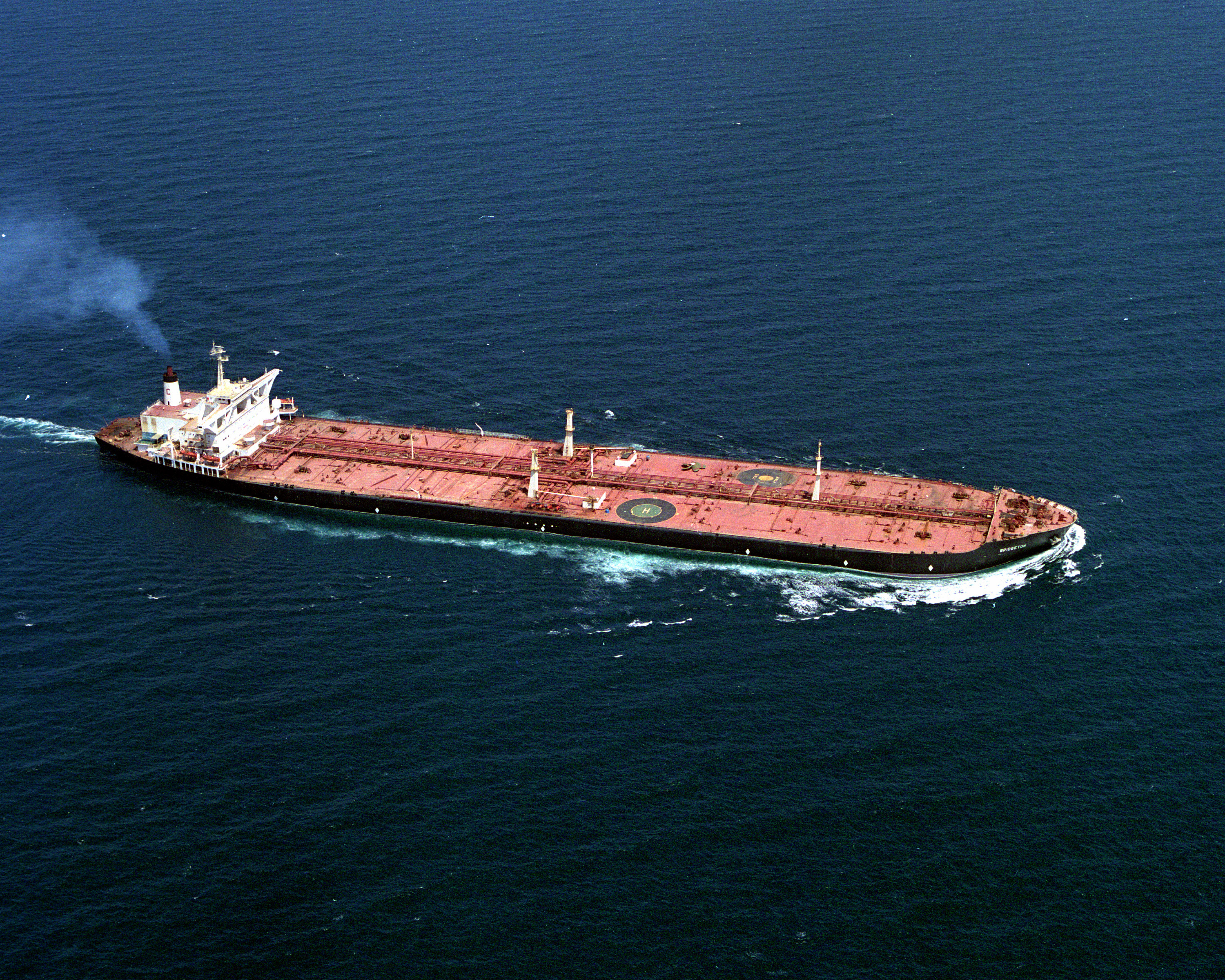 DN-SC-93-05667 - An overhead view of the U.S.-flagged Kuwaiti tanker SS BRIDGETON underway during Operation Southern Watch.